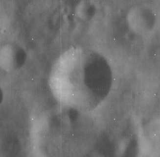 Crater Glaisher on the Moon.